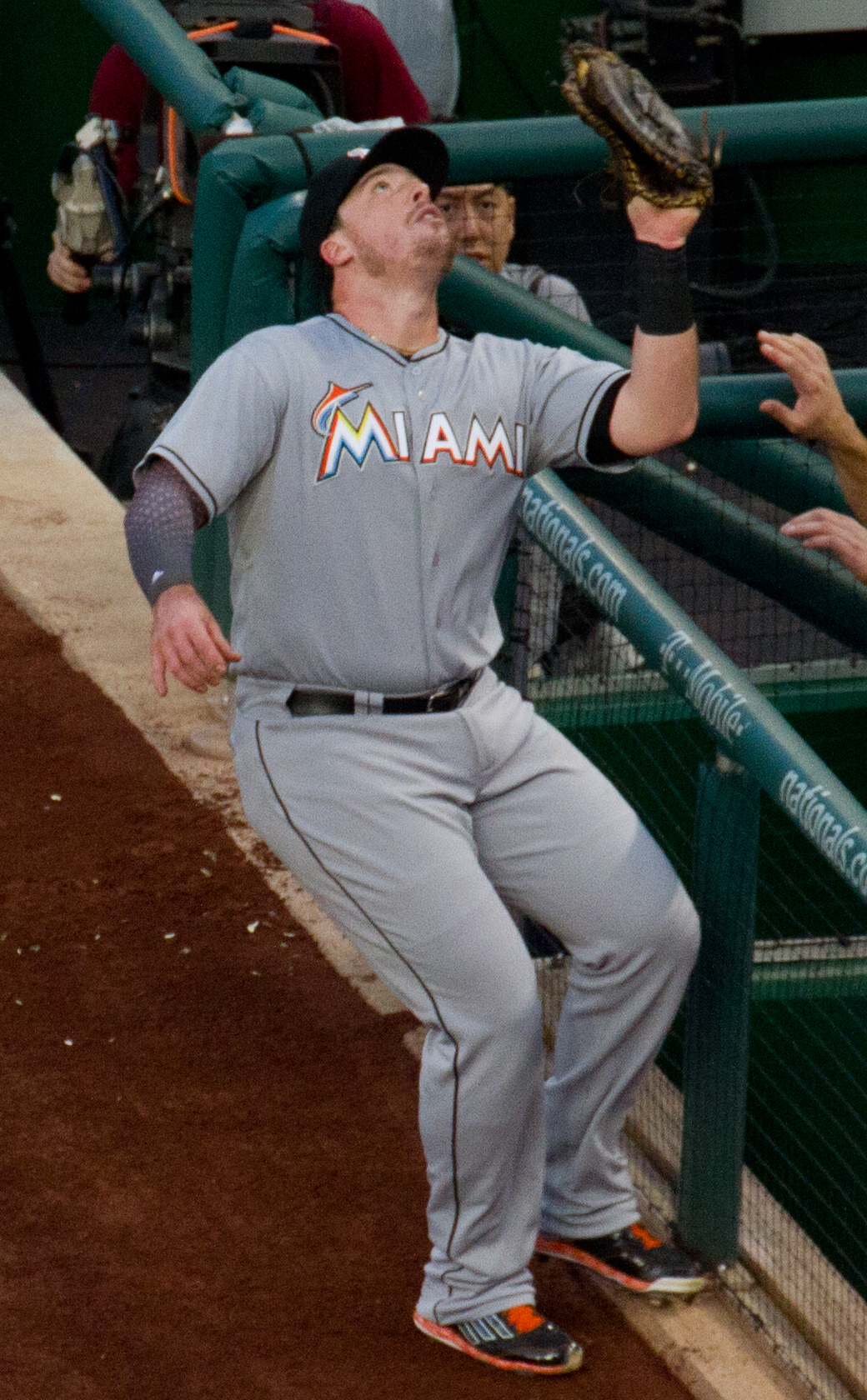 Justin Bour